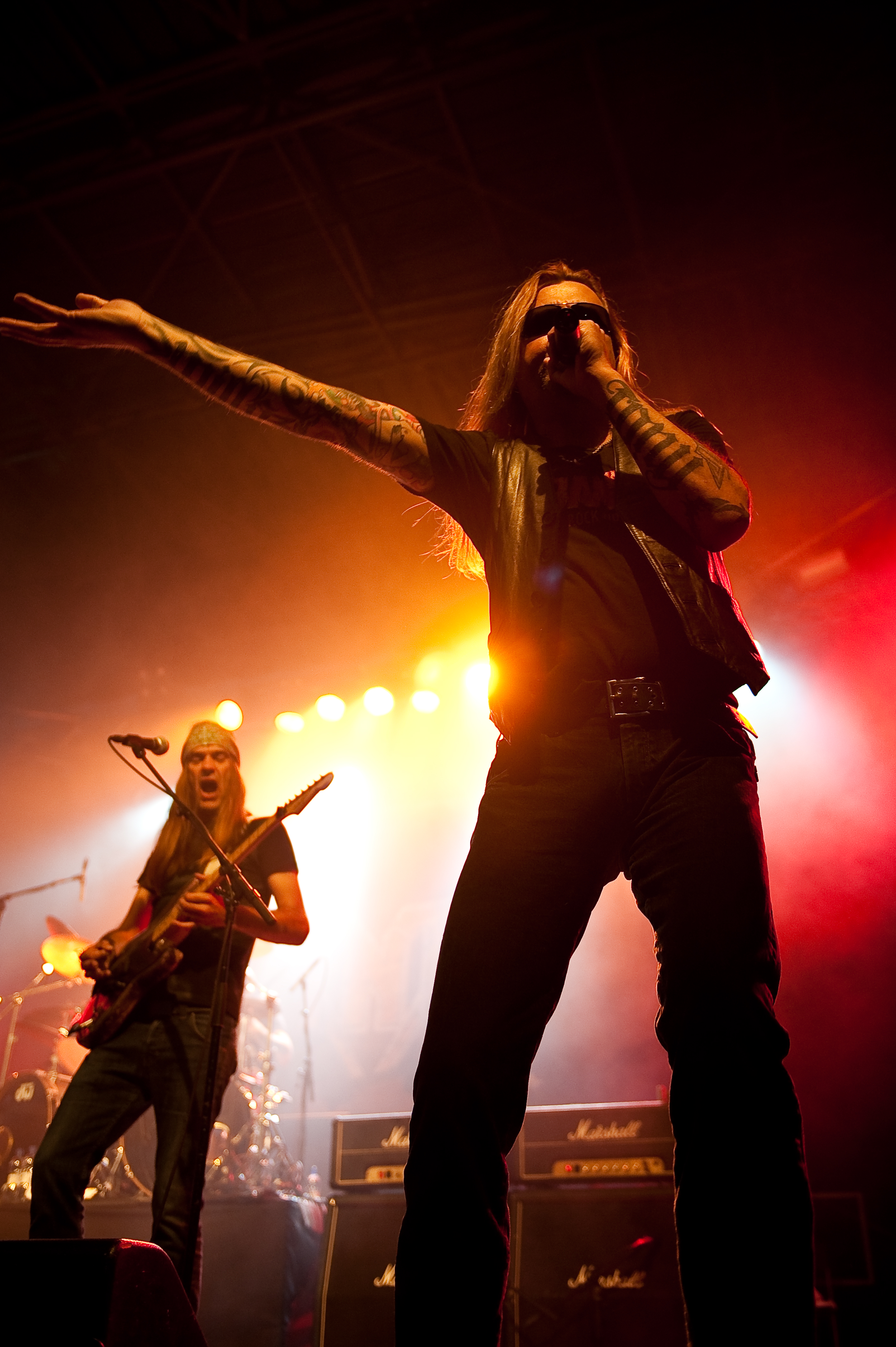 TNT - Tony Mills